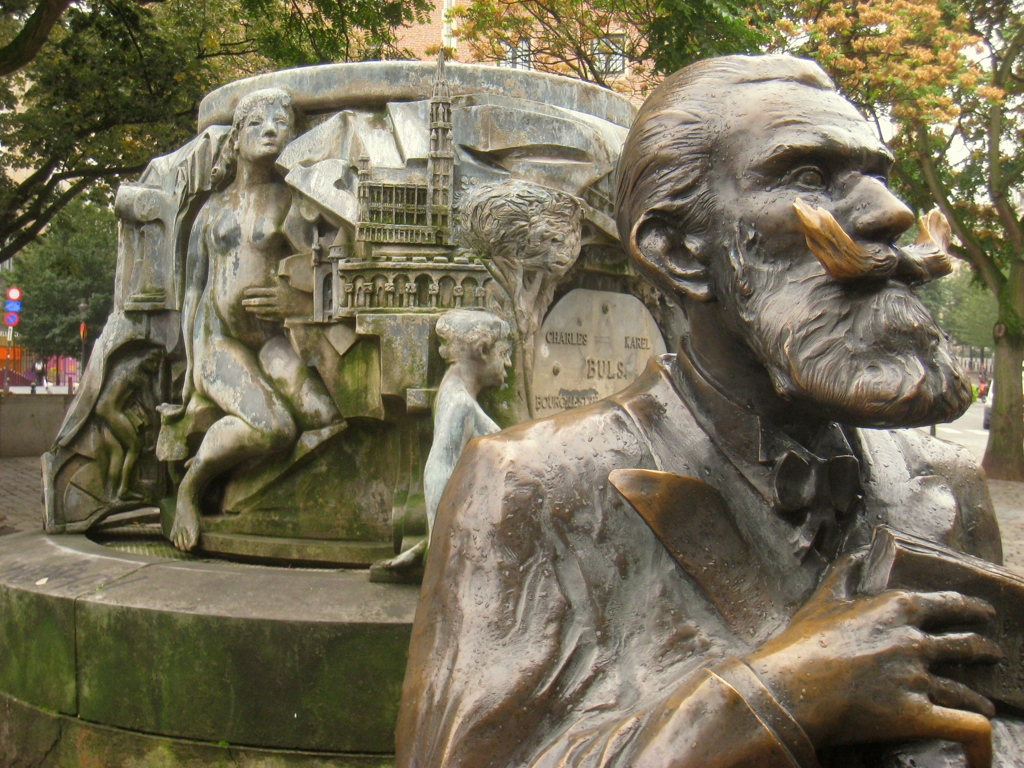 Memorial fountains for Charles Buls or Karel Buls (13 October 1837–13 July 1914), Brussels, Belgium.